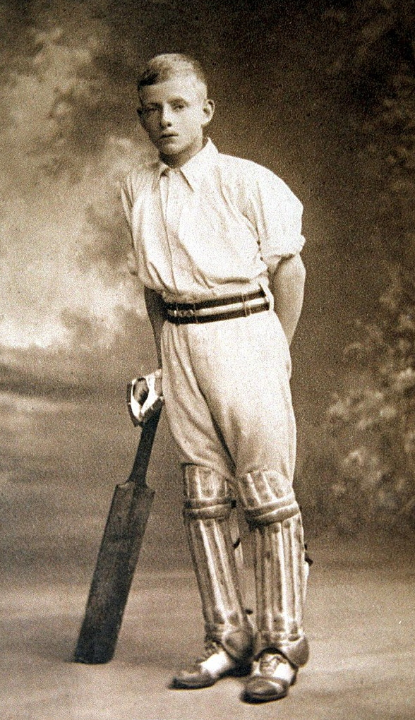 Arthur Edward Jeune Collins, pictured on an 1899 postcard